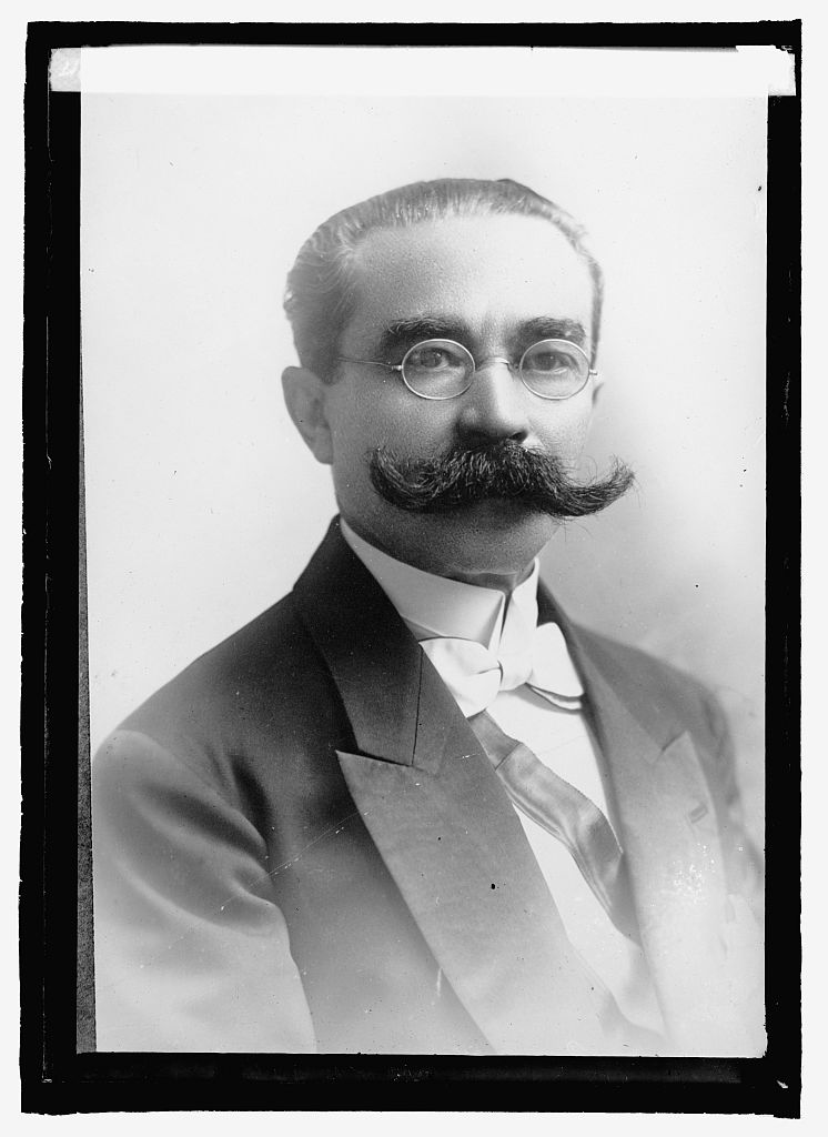 Venezuelan politician Victorino Márquez Bustillos during the 1910s.